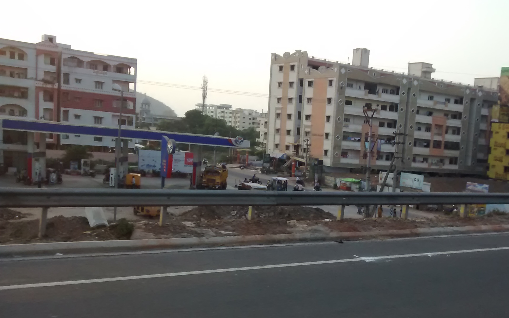 Residential houses at Tadepalli